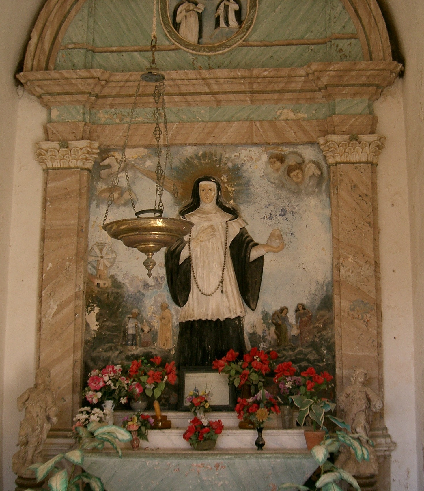 Altarpiece, by an unknown painter of 18th cent., with Saint Catherine Thomas, in a chapel at Valldemossa, Mallorca